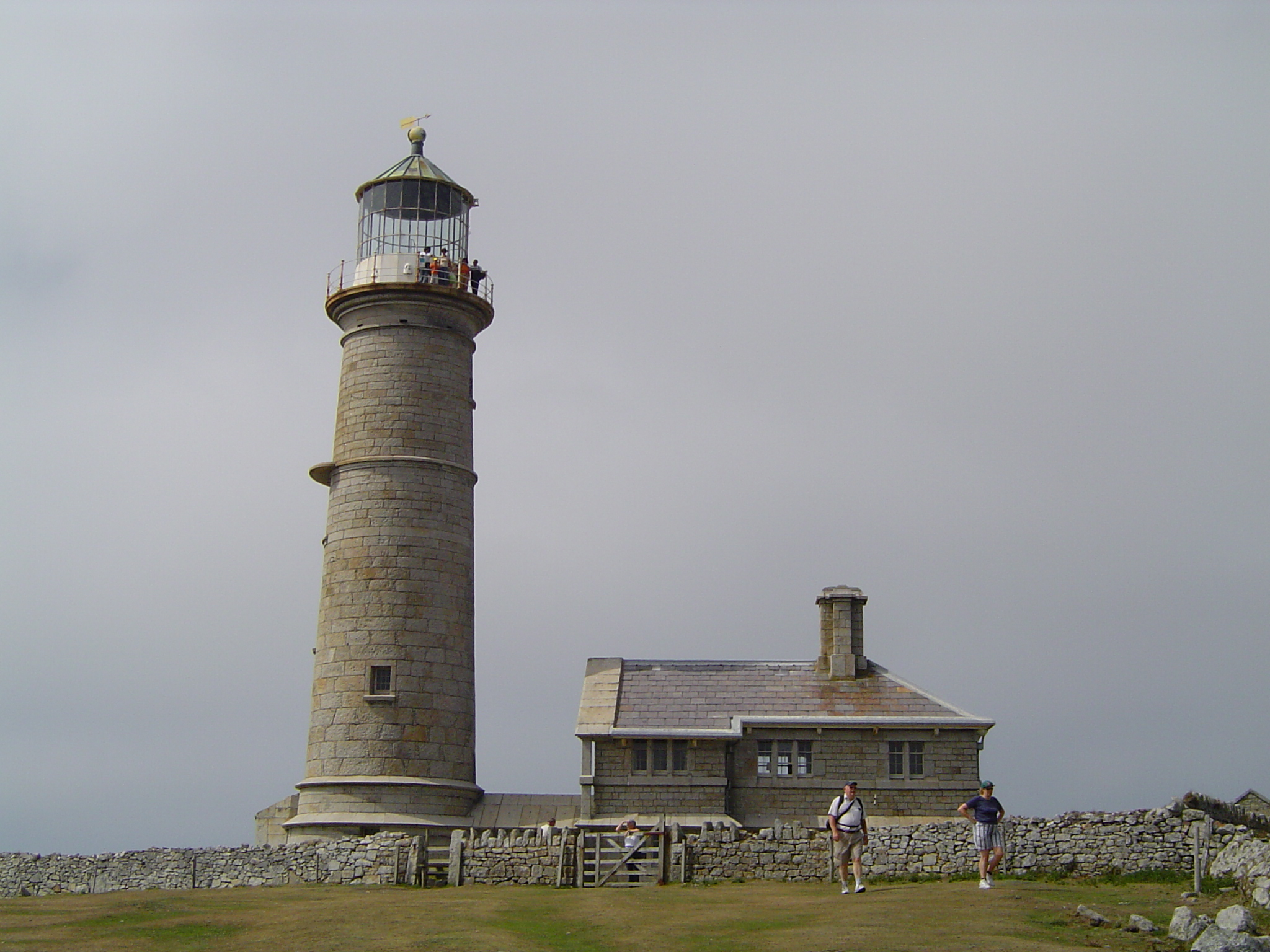 The Old Light lighthouse on Lundy Island off the coast of Devon, England.